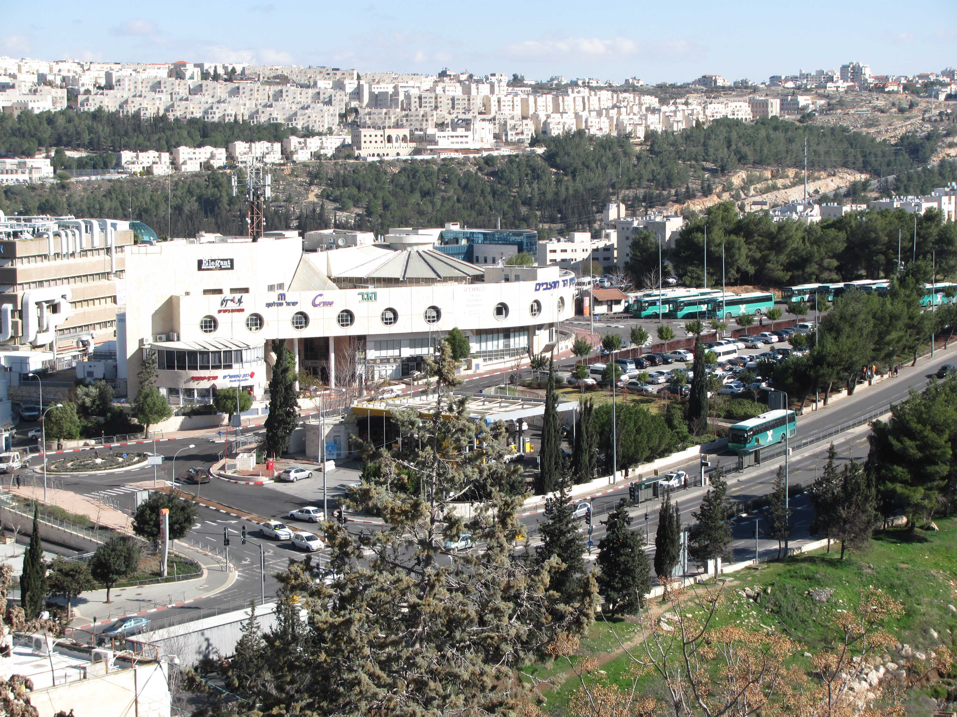 Entrance to Har Hotzvim Industrial Park. The long white building is the Kanyon Har Hotzvim shopping mall. An Egged bus depot is to the right of the Kanyon. Golda Meir Blvd. is in foreground and Ramat Shlomo is in background.